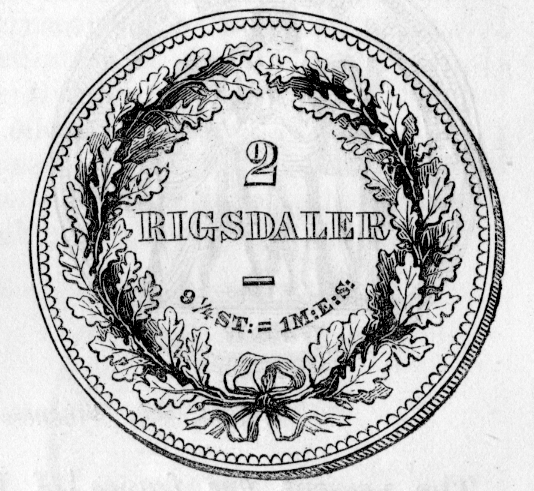 A Danish silver two rigsdaler piece of 1868, with the head of Christian IX. "Weight .927, fineness 877. Value 4s 3/8d." Reverse shown